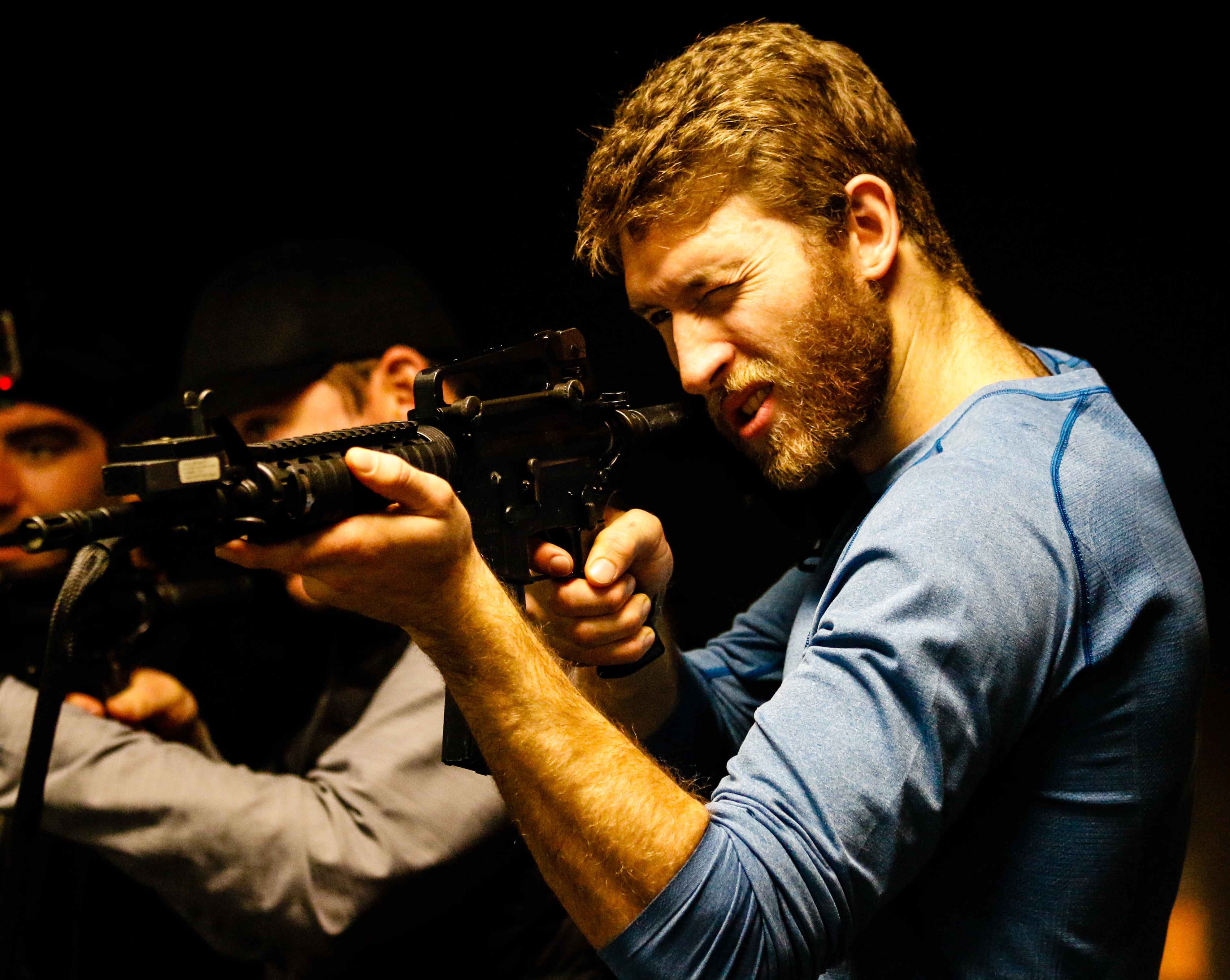 Jaccob Slavin, an Erie, Colorado native and a hockey player with the National Hockey League’s Carolina Hurricanes uses an electronic M4 carbine for a engagement skills training session during a community engagement event at the Fort Bragg Training Support Center, Fort Bragg, North Carolina, Nov. 13, 2018. The NHL's Carolina Hurricanes visited Fort Bragg to speak with Soldiers, Gold Star Families, and to learn Soldier skills at Fort Bragg's Training Support Center. (U.S. Army photo by Spc. Hubert D. Delany III / 22nd Mobile Public Affairs Detachment)